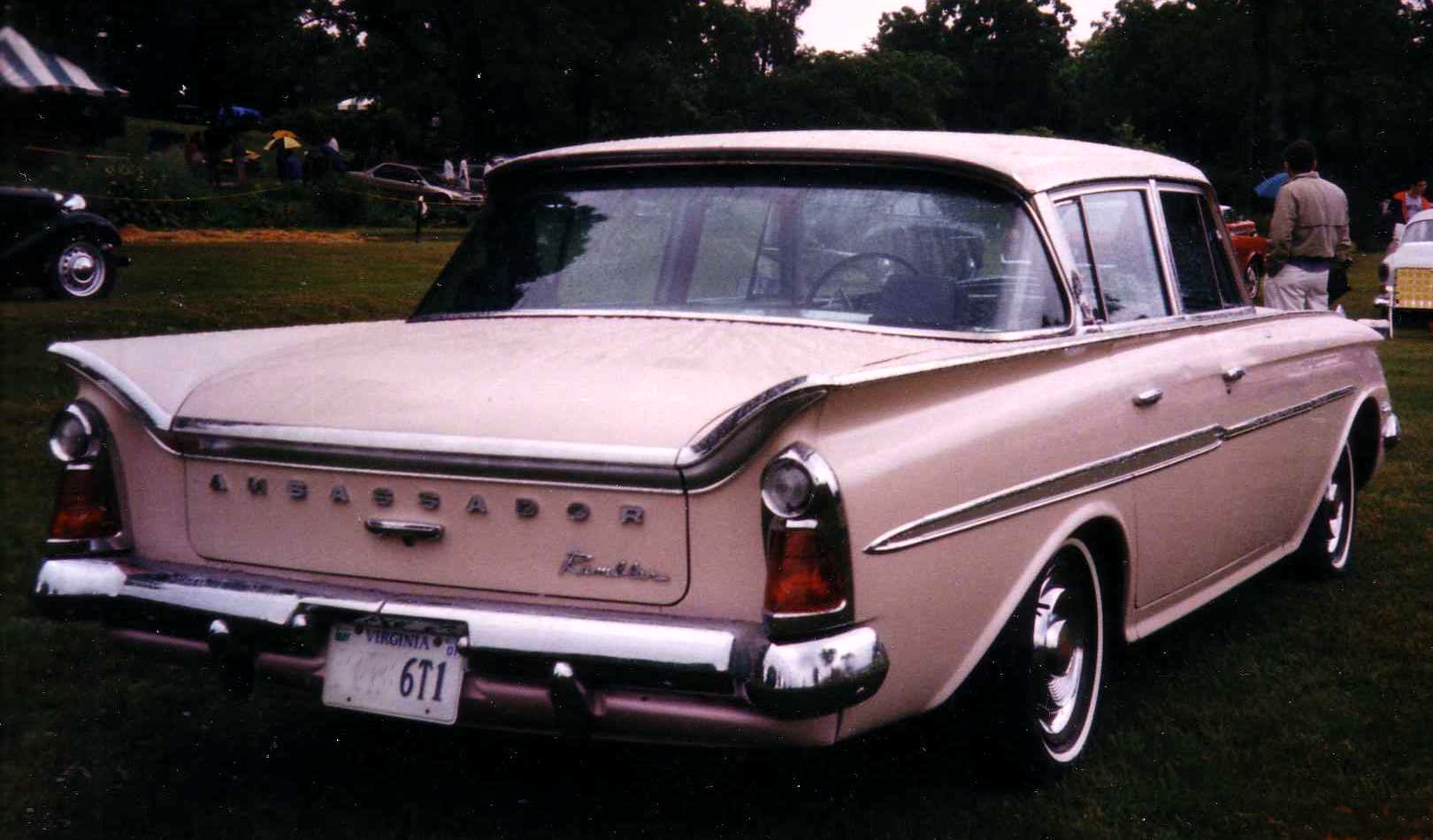 American Motors Corporation (AMC) 1961 Rambler Ambassador four-door sedan finished in pink (rear view).